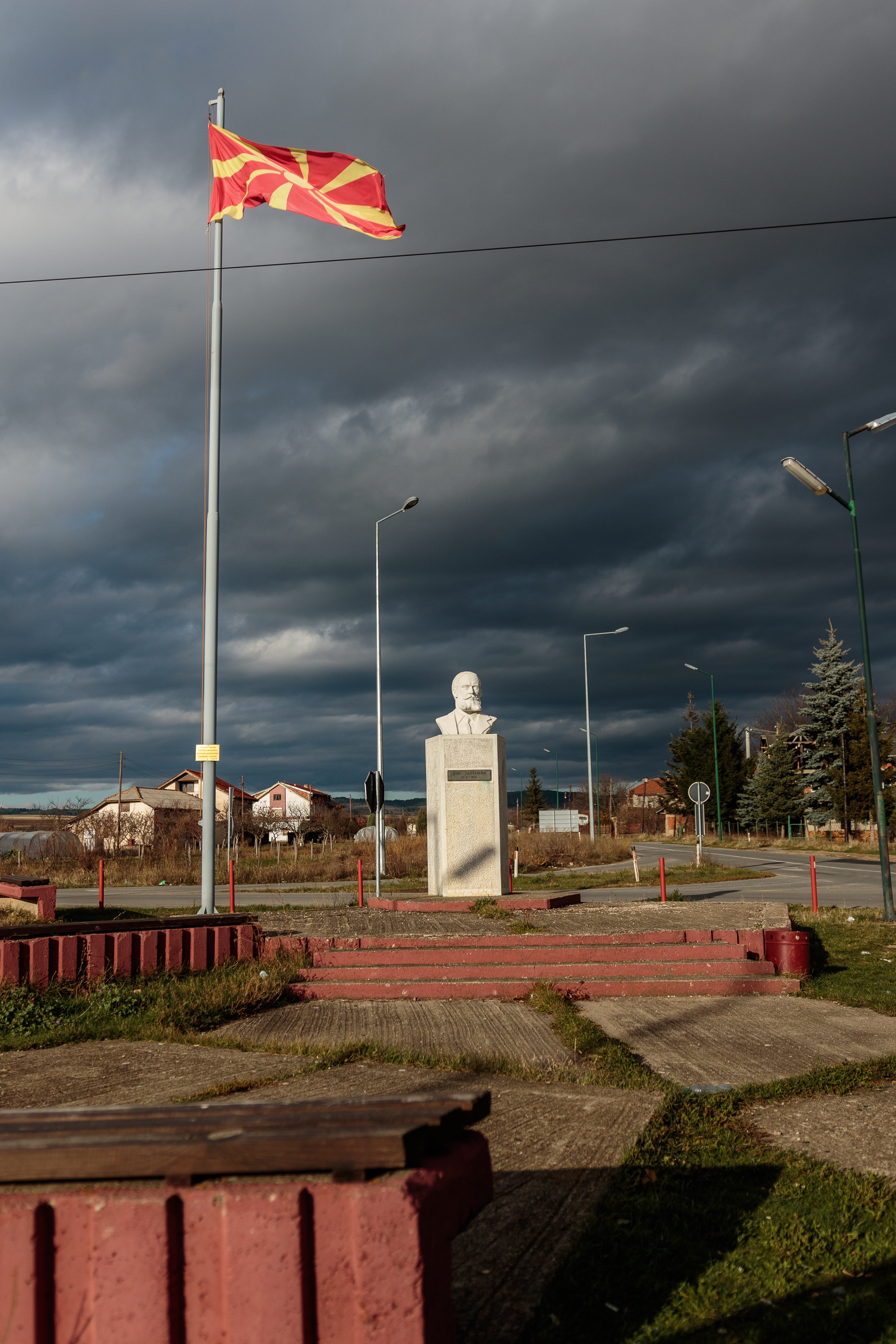 Monument in Smojmirovo